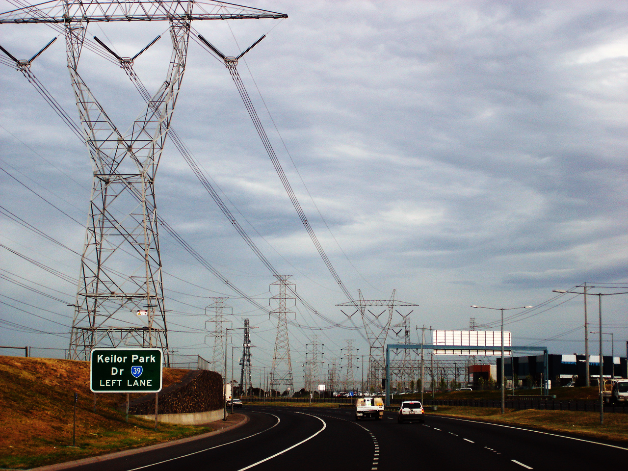 Heading west on the Western Ring Road in Melbourne, approaching Keilor Park.